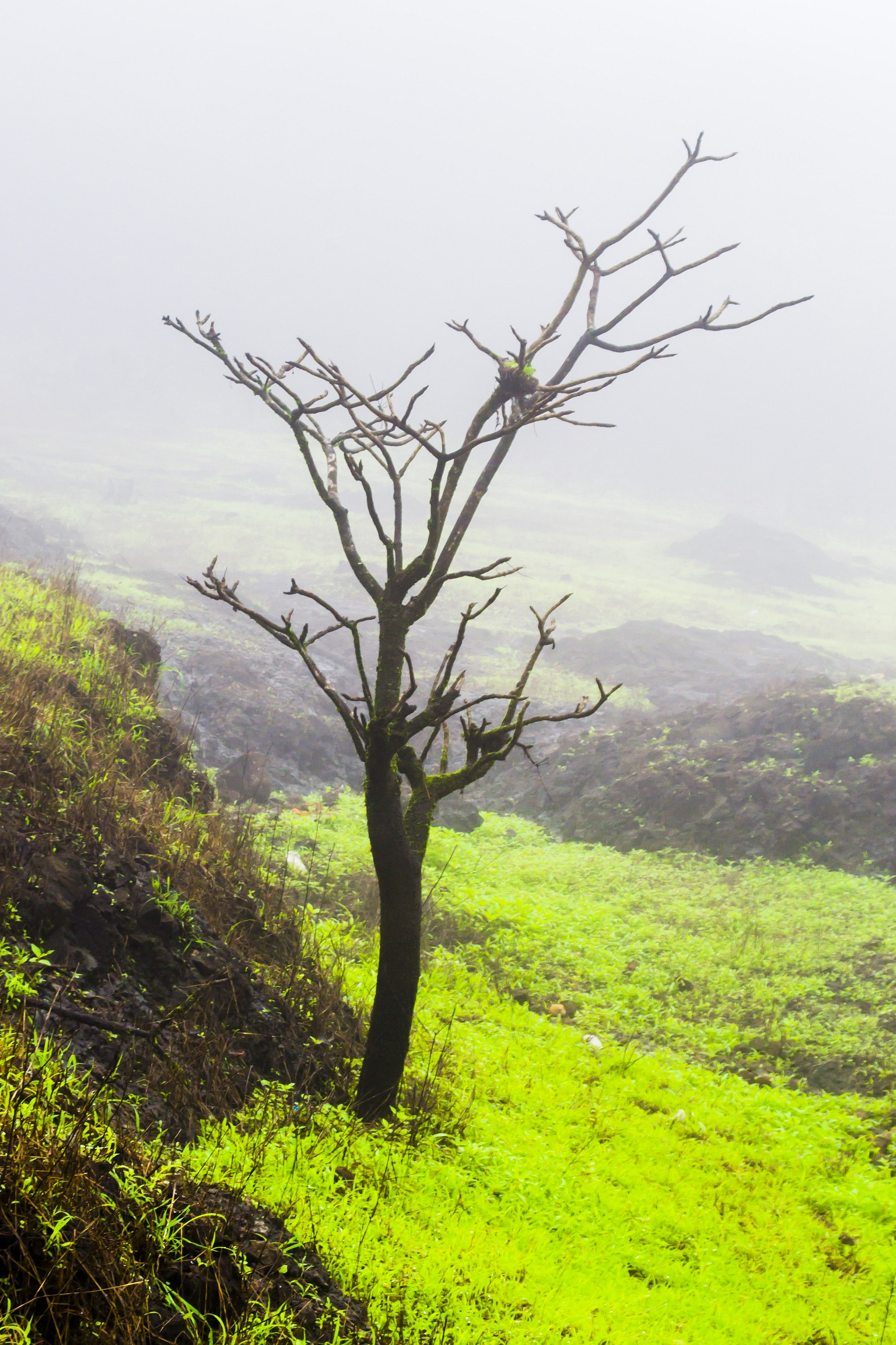 First it is all white fog. Suddenly a cool breeze came and some of the fog went away then the beautiful green popped out from nowhere. This is the best time to capture this and I did. Then fog occupied the place and it started raining. I am so lucky that nature gave me this opportunity.